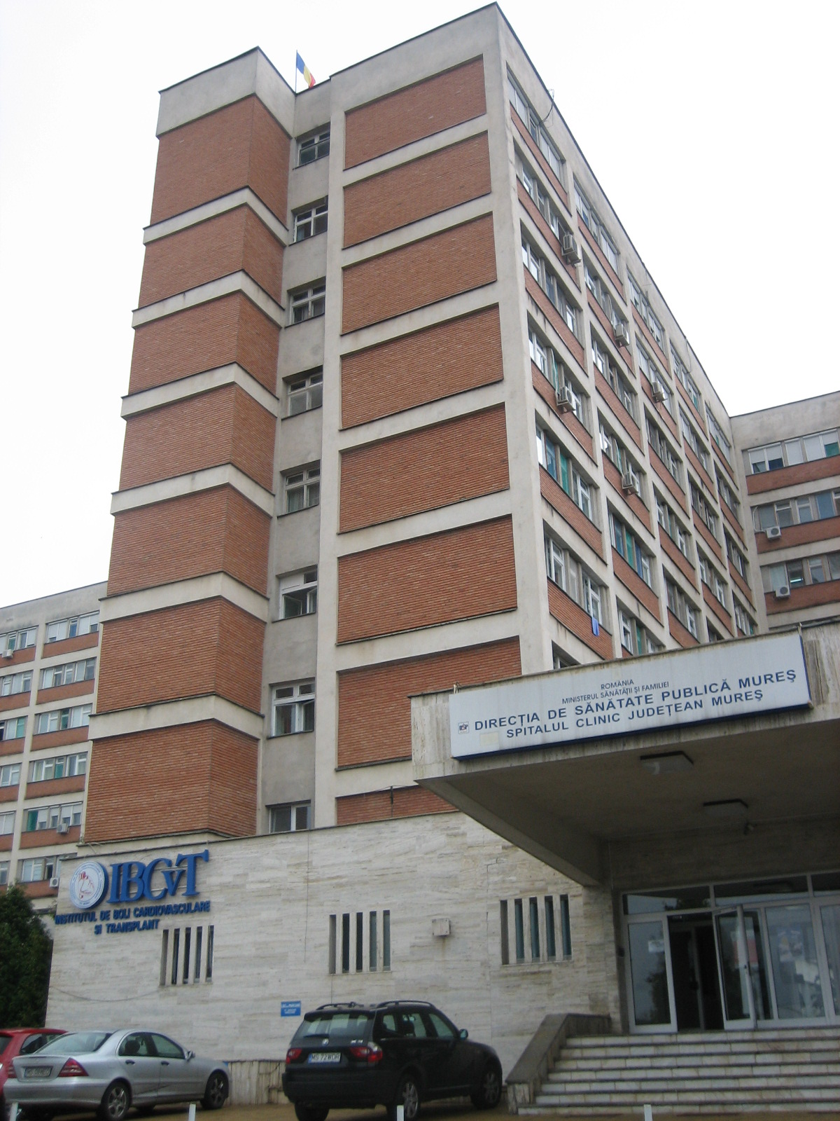 Entrance of the Hospital in Târgu Mureş - Marosvásárhely